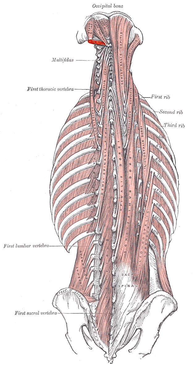 The obliquus capitis inferior muscle is the larger of the two oblique muscles of the neck. This sketch is from Gray's Anatomy.